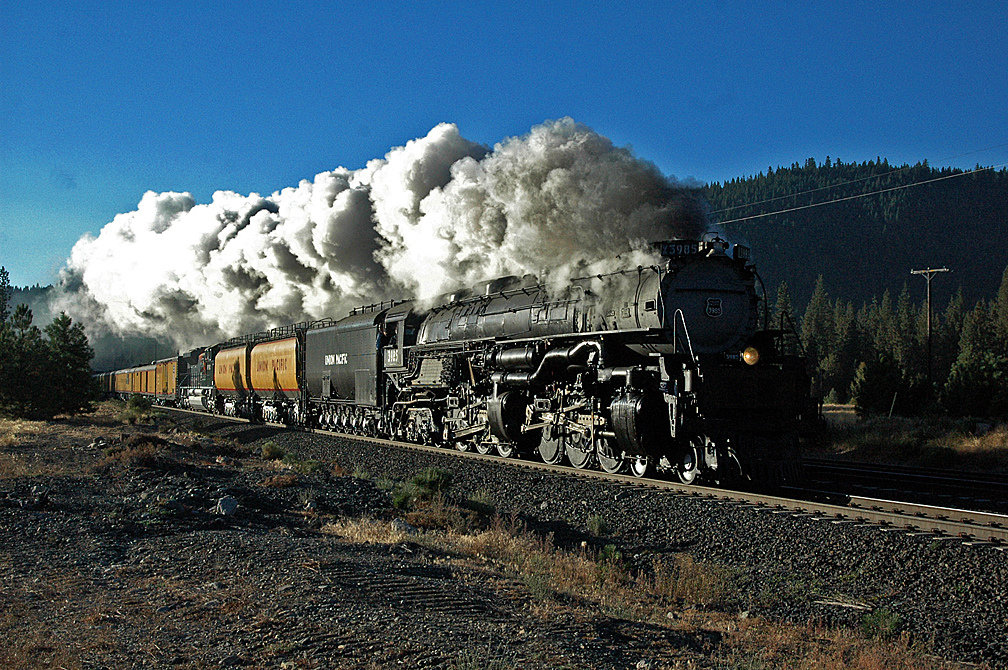 UP 3985 Westbound at Sloat, CA Sept 2nd, 2005